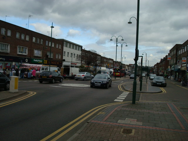 Shenley Road, Borehamwood